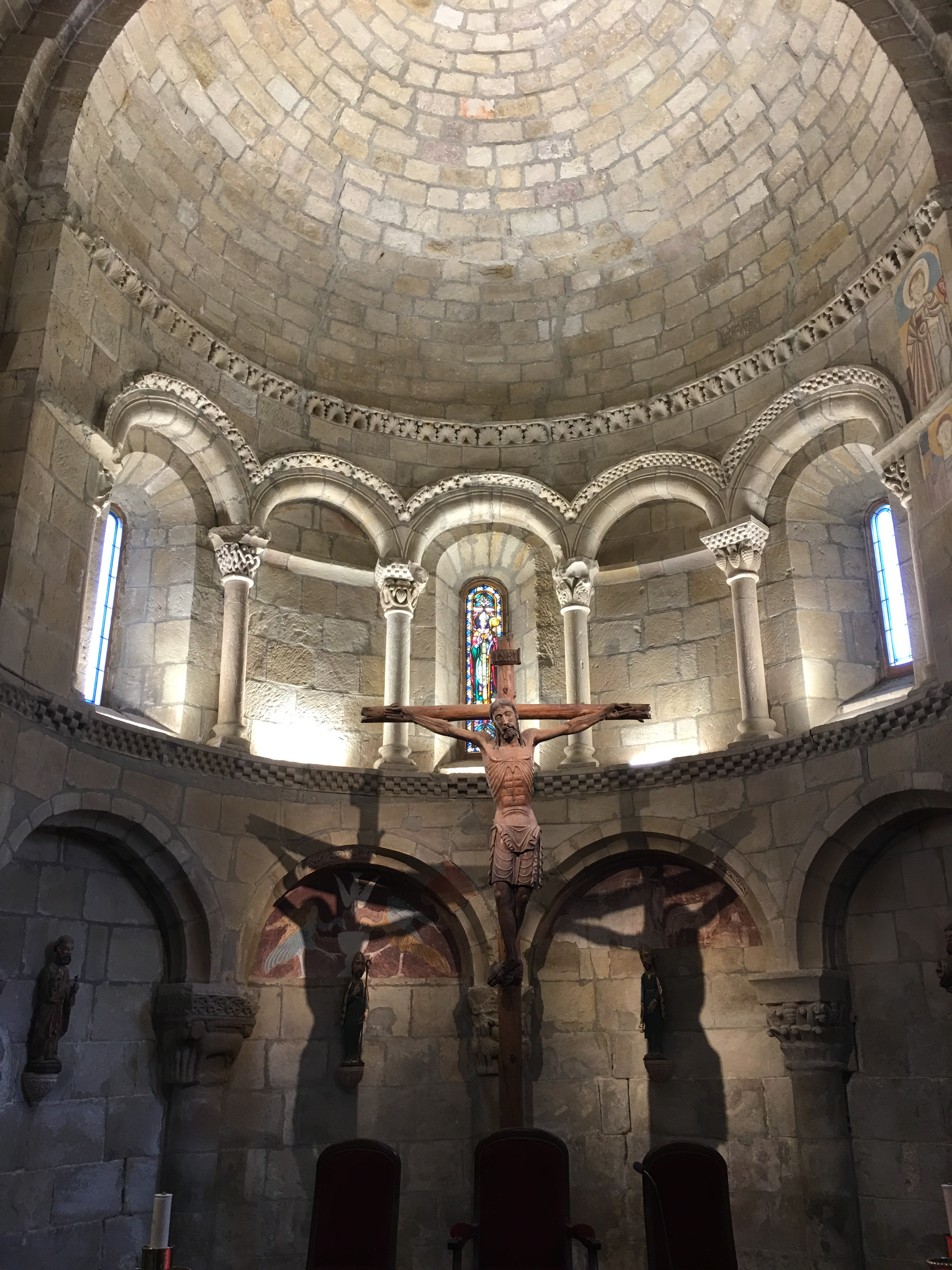 San Martin de Elines - Interior